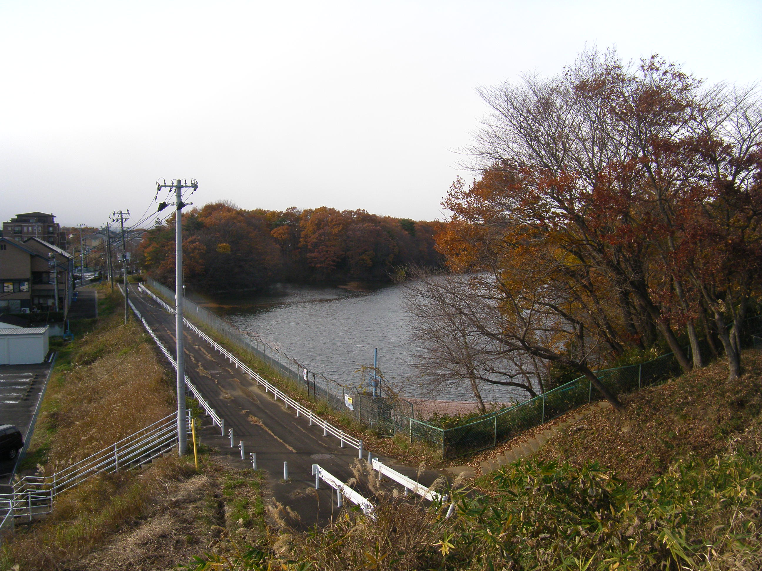 Shogen Pond. Izumi ward, Sendai, Miyagi prefecture, Japan.